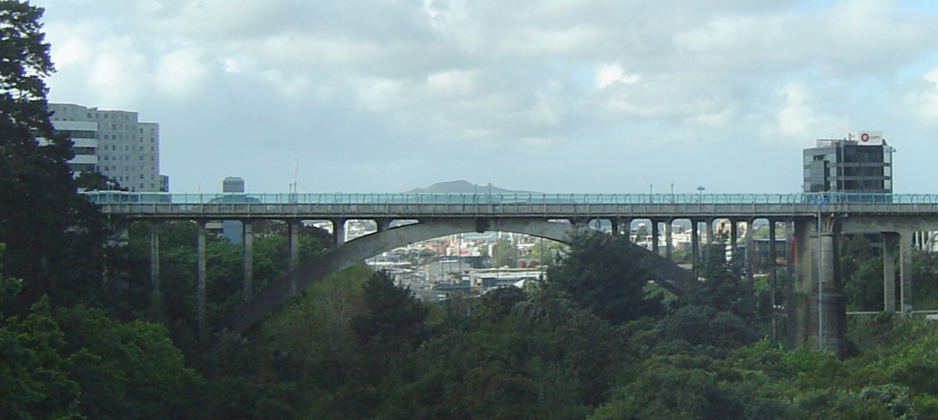 Grafton Bridge, Auckland City, New Zealand. Seen from the south, looking over Grafton Gully towards Rangitoto Island (rising just above the arch). Taken from a moving car, but in my defense, it was on a slow-moving on-ramp...